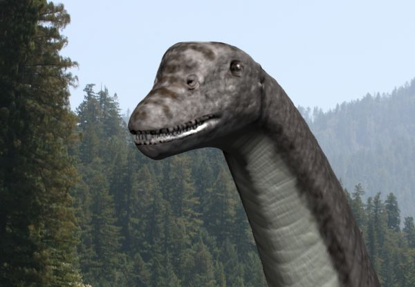 Abydosaurus